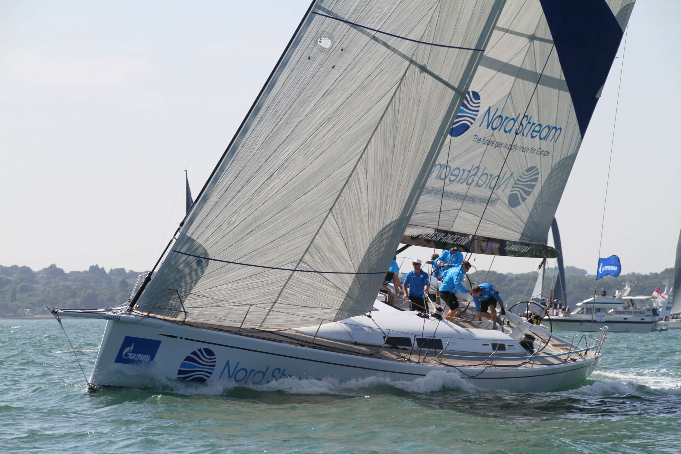 Swan 60OD GBR2860 Knights Of Crecvichon at 2013 Swan 60 World Championships - Cowes (GBR)